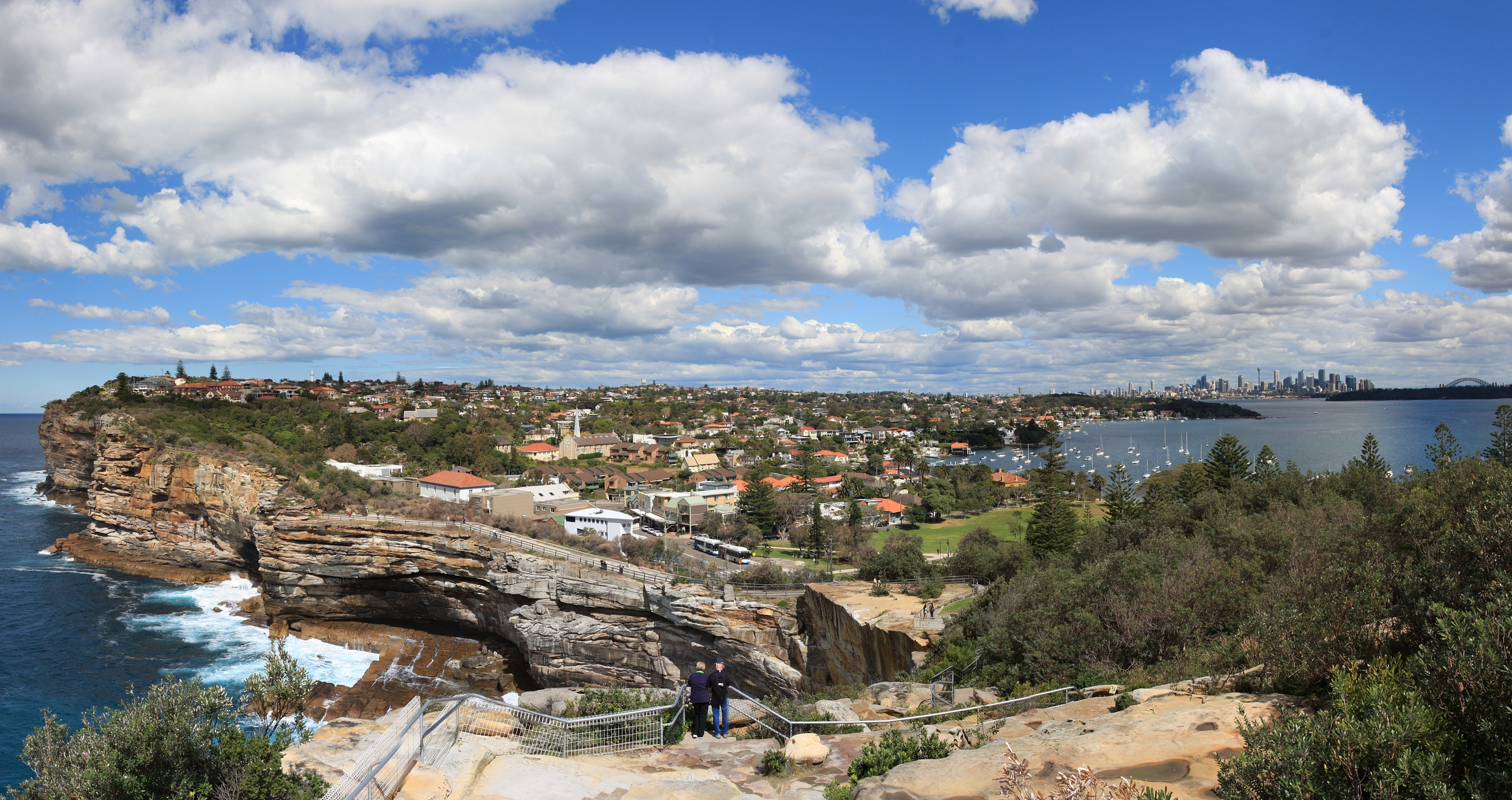 Watsons Bay, New South Wales. The City of Sydney as well as the Sydney Harbour Bridge is in the background on the right with the gap in the foreground